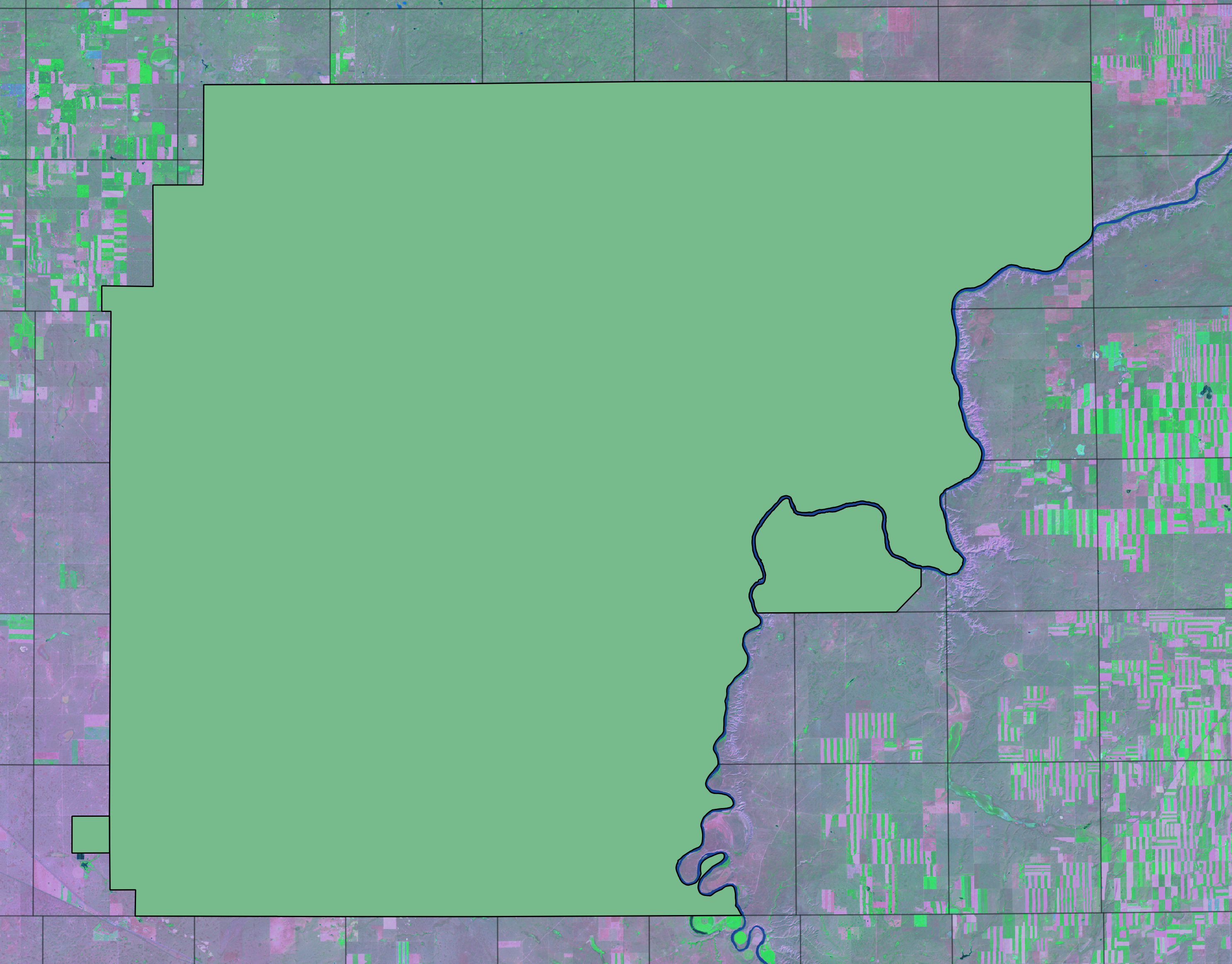 Traced from a Landsat 7 images, the outline of the Suffield Block includes the main base area of CFB Suffield, Crown Village of Ralston, Military Training Area (MTA), Experimental Proving Grounds (EPG), Suffield National Wildlife Area, and Oil Access Area. The background Landsat 7 image is "© Department of Natural Resources Canada. All rights reserved" and is available for use under the "Geogratis Licence Agreement For Unrestricted Use Of Digital Data".